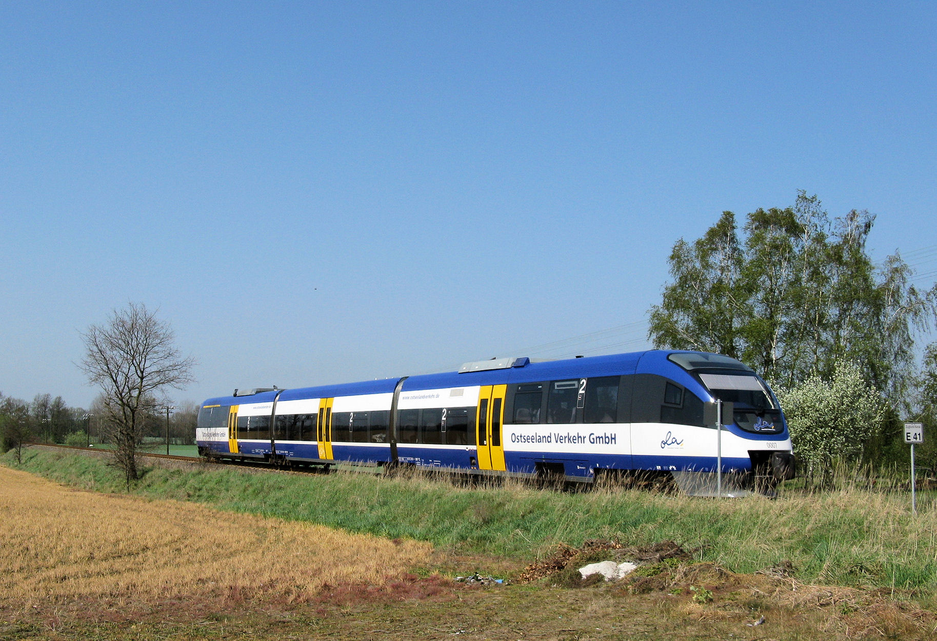 Ostseeland train in Sukow, disctrict Parchim, Mecklenburg-Vorpommern, Germany